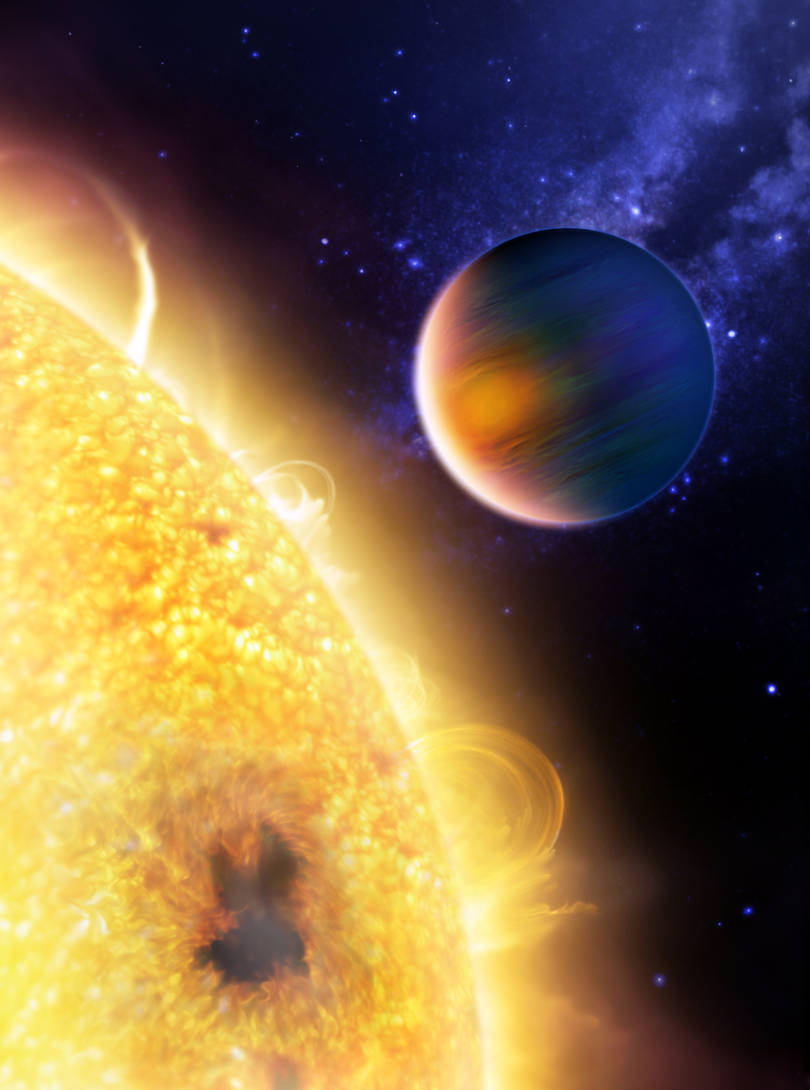 Artist’s impression of the extrasolar planet HD 189733 b, now known to have methane and water. Astronomers used the Hubble Space Telescope to detect methane — the first organic molecule found on an extrasolar planet. Hubble also confirmed the presence of water vapour in the Jupiter-size planet’s atmosphere, a discovery made in 2007 with the help of the Spitzer Space Telescope. They made the finding by studying how light from the host star filters through the planet’s atmosphere.